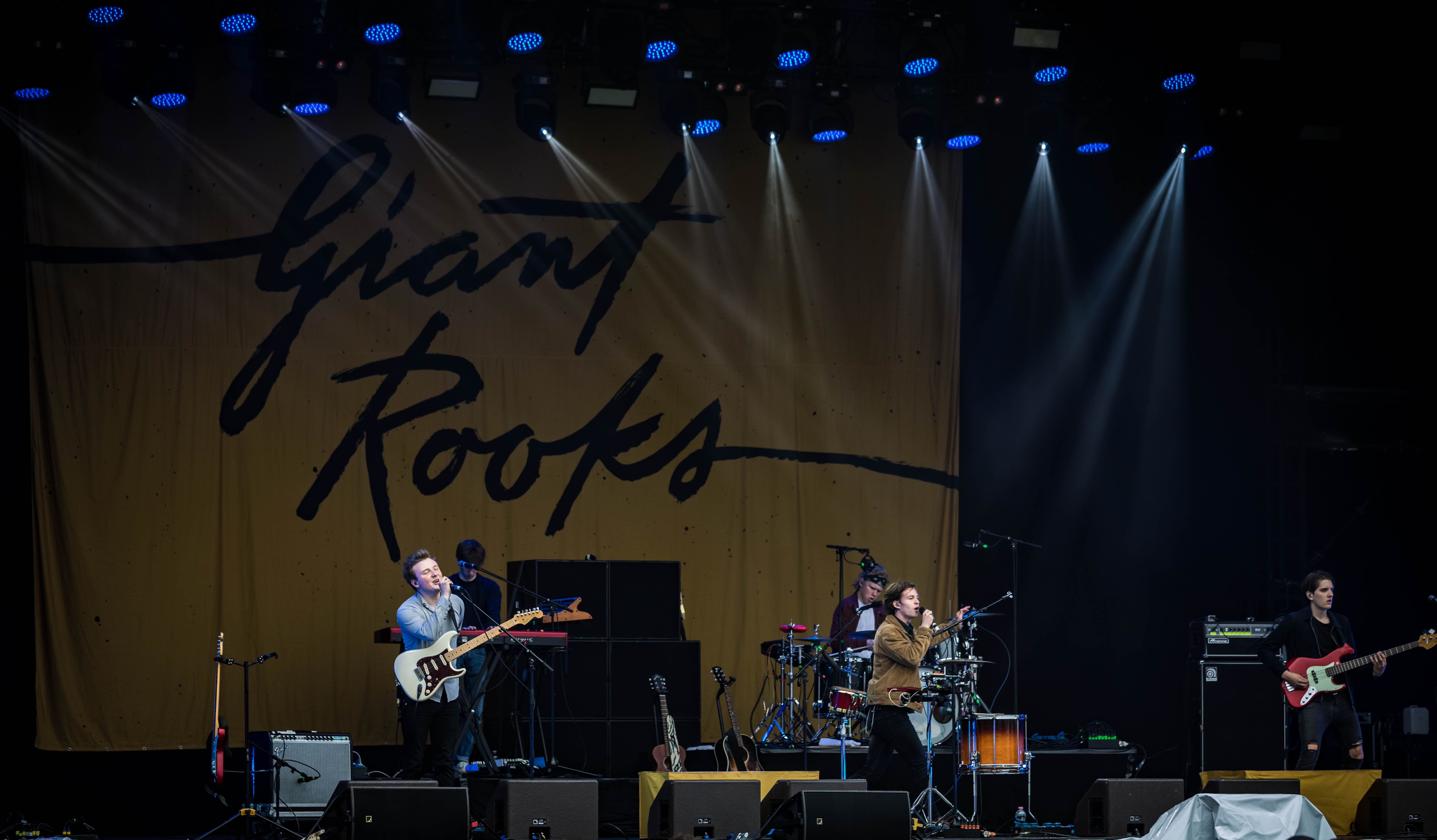 Giant Rooks - Rock am Ring 2018